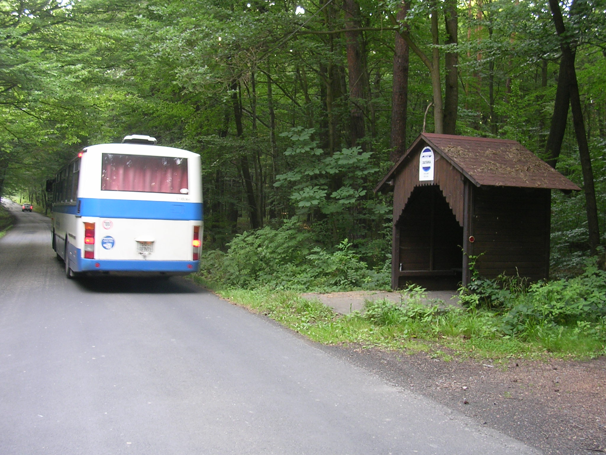 Broumy, Beroun District, Central Bohemian Region, the Czech Republic. The bus stop of "Broumy, Kolna".